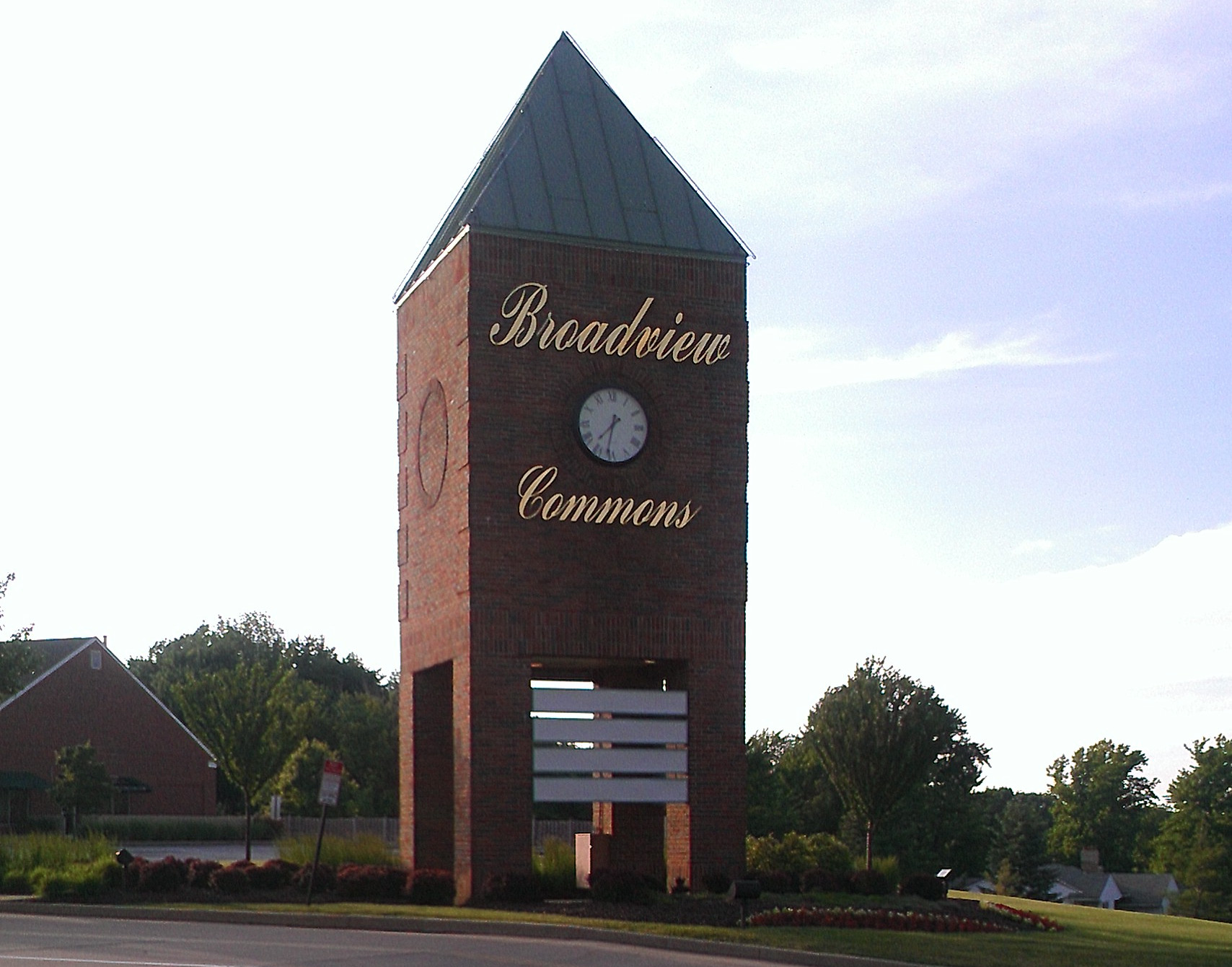 Broadview Commons Shopping Center in Broadview Heights, Ohio, June 2014